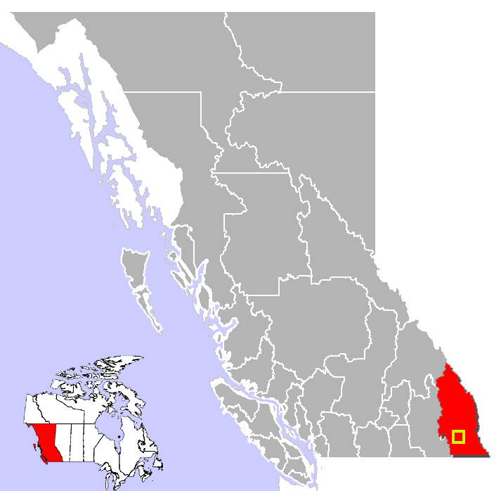 Location of Cranbrook